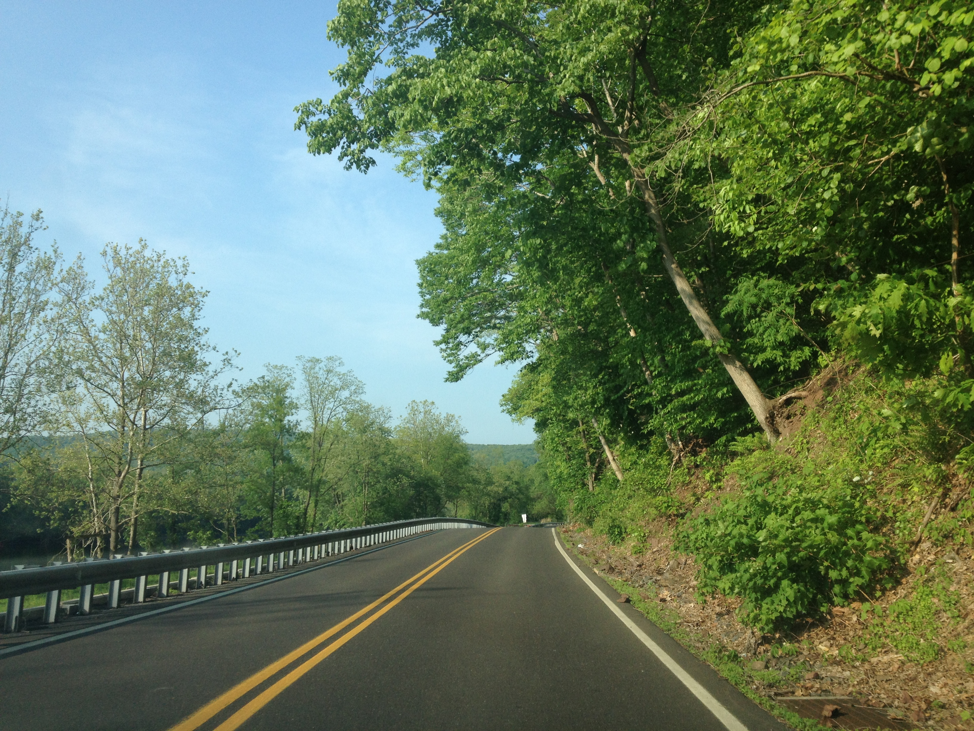 Southbound Pennsylvania Route 32 (River Road) along the Delaware River past the intersection with Pennsylvania Route 611 in Kintnersville.